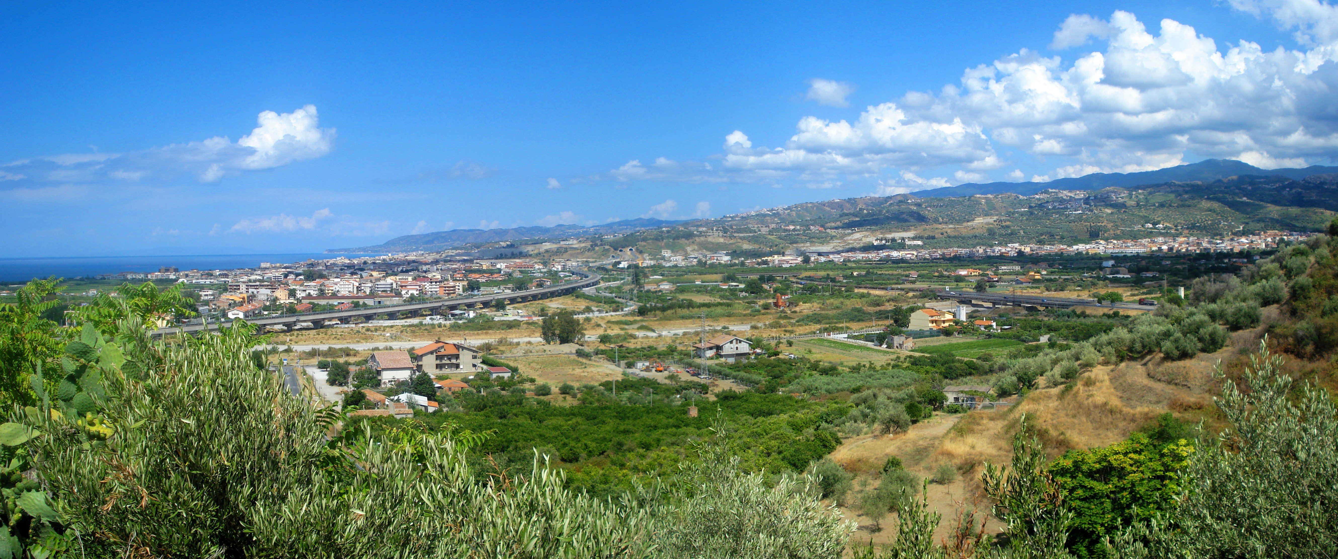 View of the Niceto valley and Torregrotta.